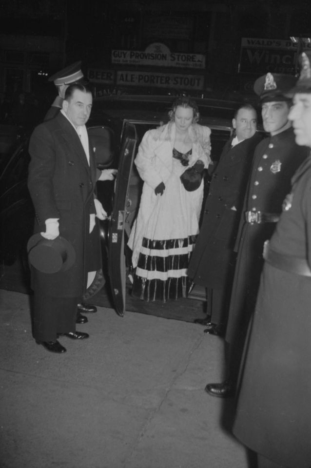 We see Mrs Neagle, wearing an evening dress on leaving the "His Majestys Theatre" Guy Street in Montreal, surrounded by a group of men including three in uniform.